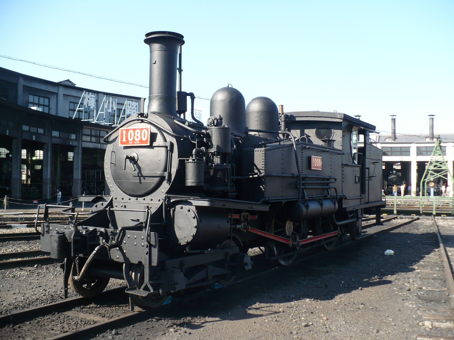 Japanese Governmental Railway type 1070 steam locomotive No.1080, preserved at Umekoji steam locomotive museum, Kyoto, Japan.